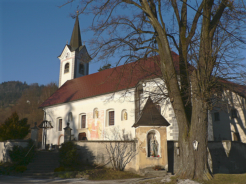 Šentožbolt, Slovenia. View of St. Oswald's Church.